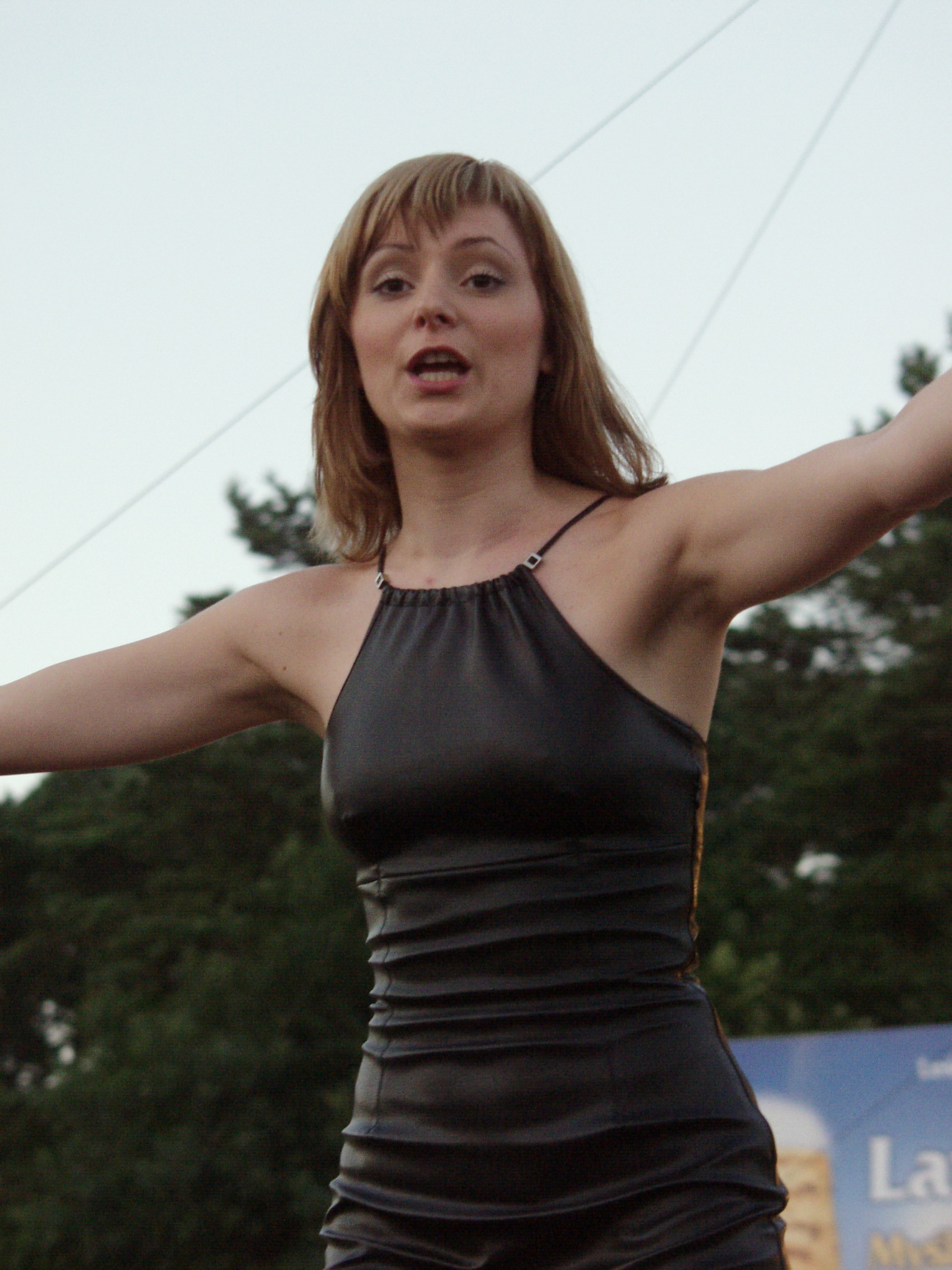 Halina Mlynková in concert.